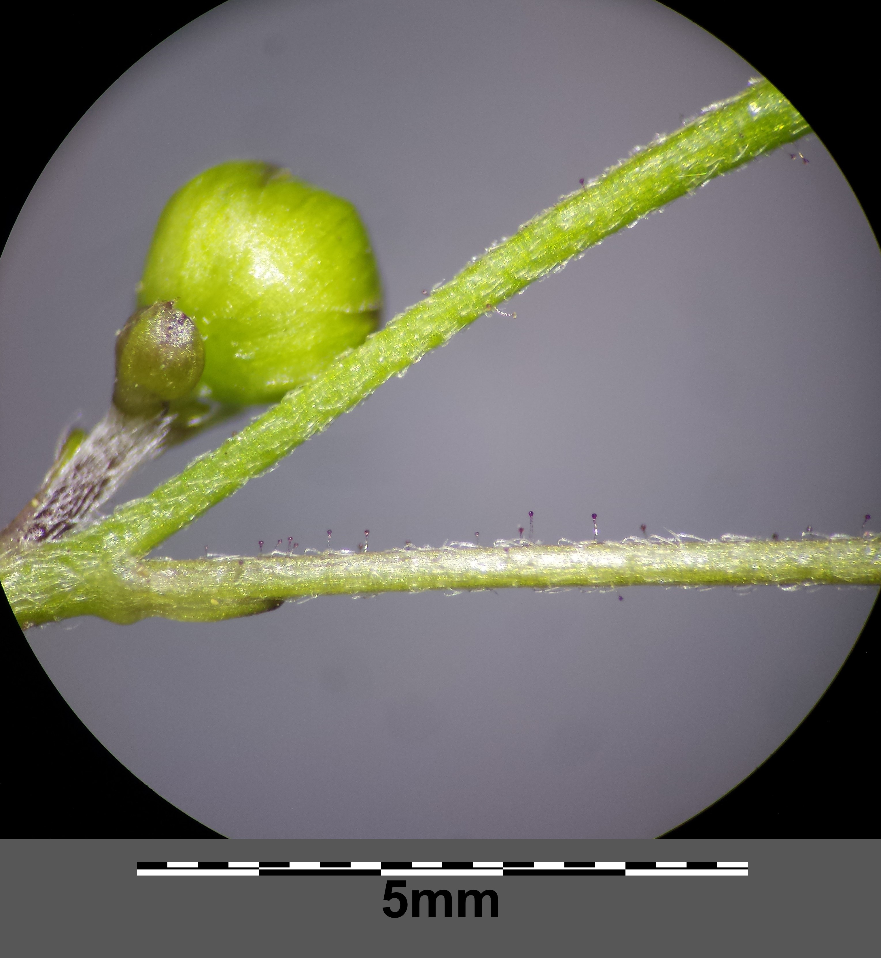 Pedicels of flower baskets with few gland hairs Taxonym: Galinsoga parviflora ss Fischer et al. EfÖLS 2008 ISBN 978-3-85474-187-9 Location: Nordmanngasse, Donaufeld, Vienna-Floridsdorf - ca. 160 m a.s.l. Habitat: wet field